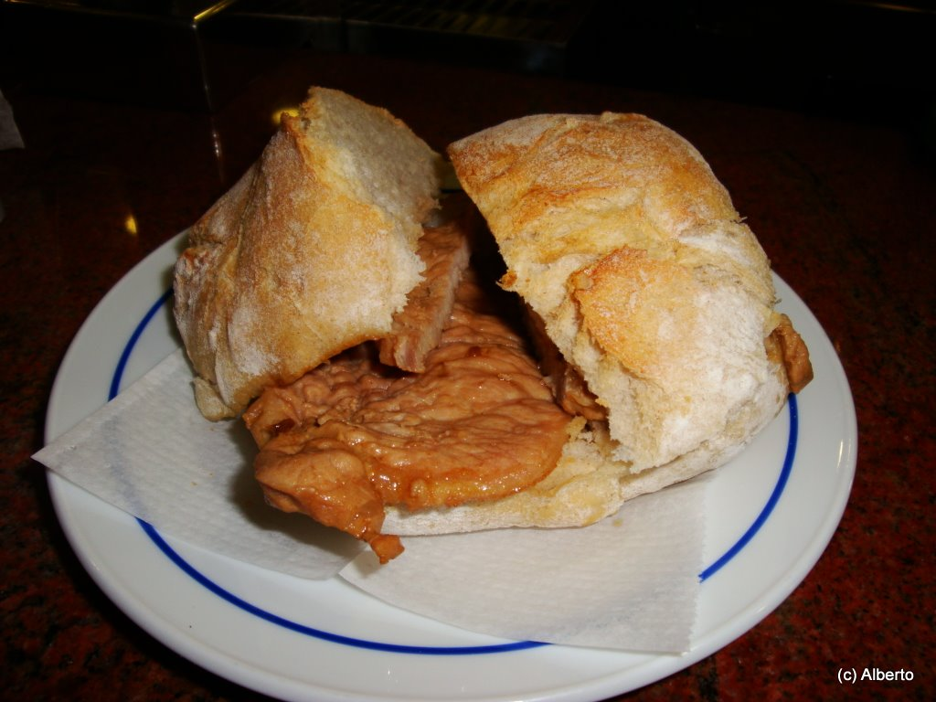 A bifana on a plate